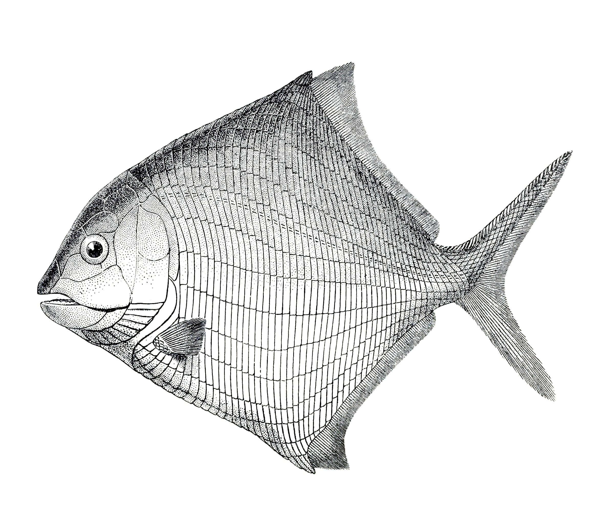 Fig. 43. — Cheirodus granulosus, restored. (Actinopteri - Palaeonisciformes - Platysomidae - Chirodus) [1]